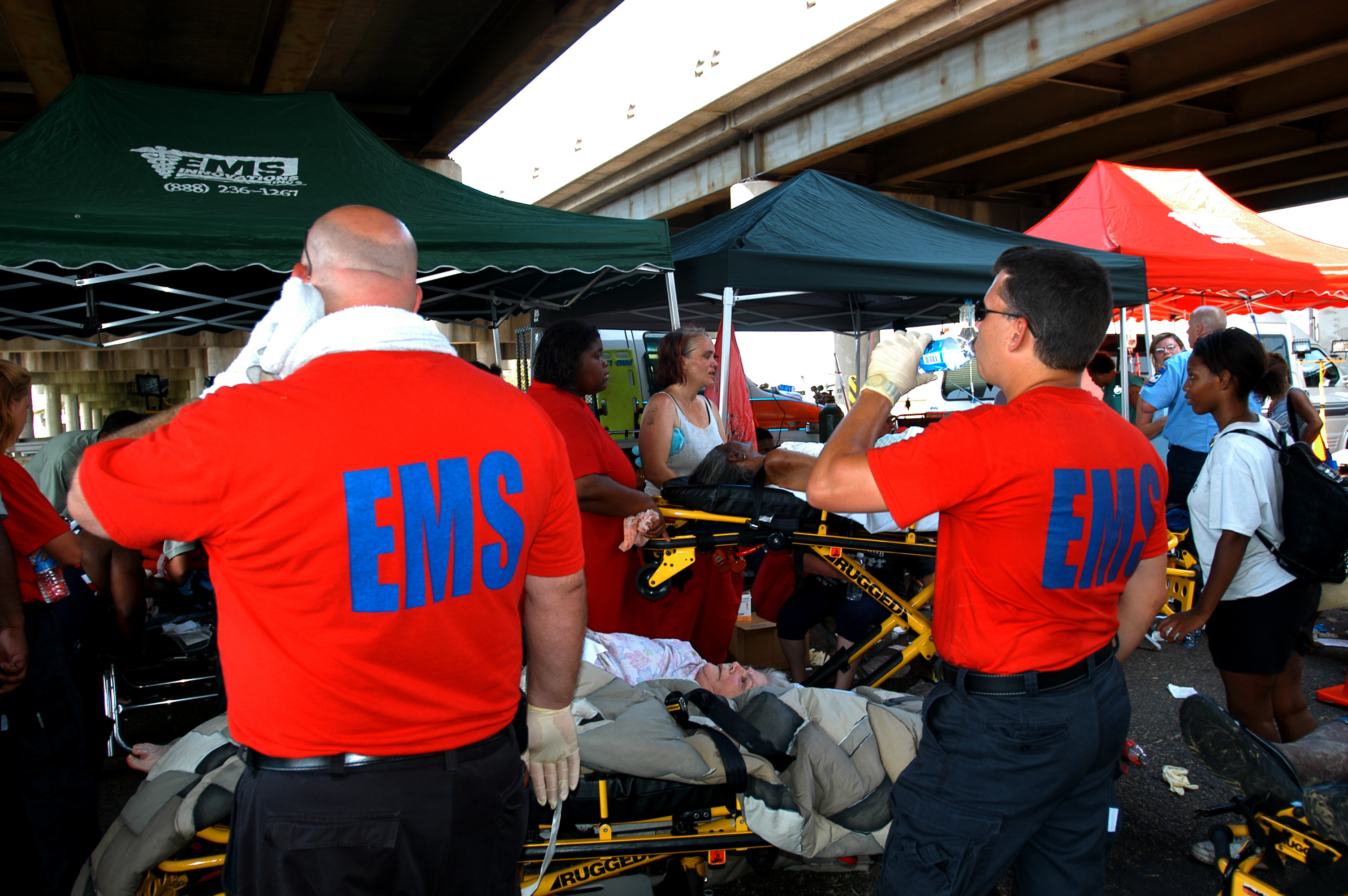 New Orleans, La., August 31, 2005 -- Two emergency medical services tecnicians pause in the heat of the day to have a drink of water and wipe away perspiration. Dozens of emergency worker from many cities and towns are working to help evacuees affected by Hurricane Katrina which made landfall just east of the city on August 29. The City of New Orleans is being evacuated following hurricane Katrina and rising flood waters. Win Henderson/FEMA